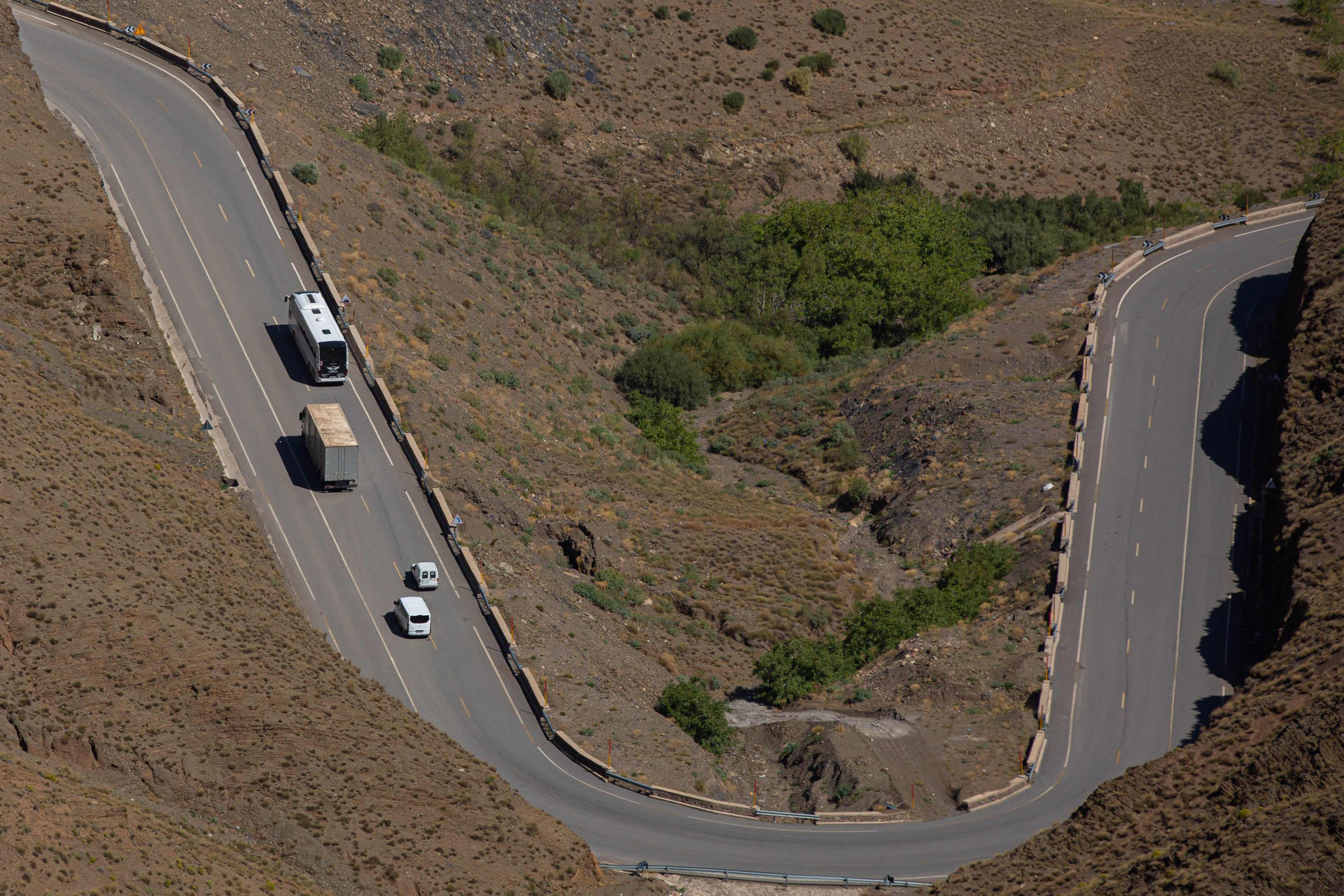 This is an image with the theme "Africa on the Move or Transport" from: Morocco